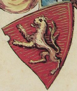 Coat of arms found in the armorial under "Martinuxevicch". In the armorial, the lion is repeated in the crest. This is incorrect, as the family use an eagle, inherited from the Orlovitch ancestors.